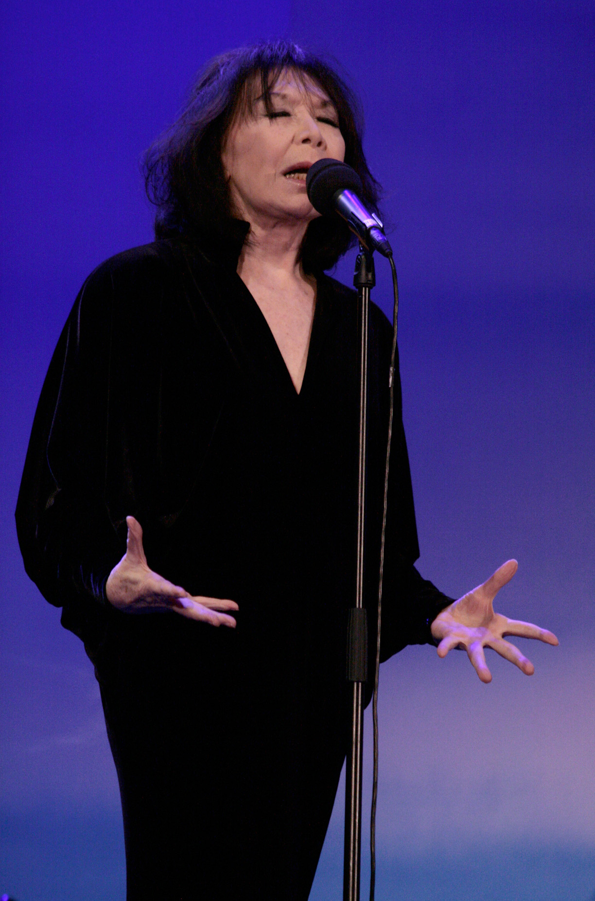 Juliette Gréco; concert at the opening of the Vienna Festival 2009